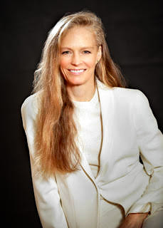 Suzy in 2017